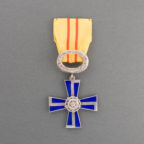 4th class of the Cross of Liberty, Finland (VR 4)